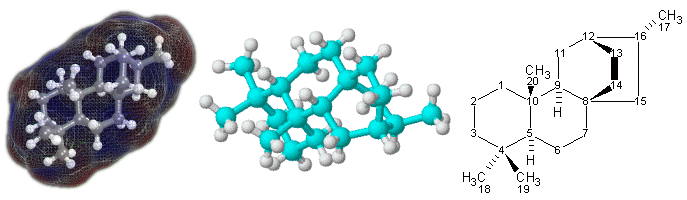 Three molecules. This image was originally uploaded to EN by User:Unconcerned. The molecule on the left is from Image:Atisane.png, uploaded by User:Ddoherty on 14:27, 19 May 2003.